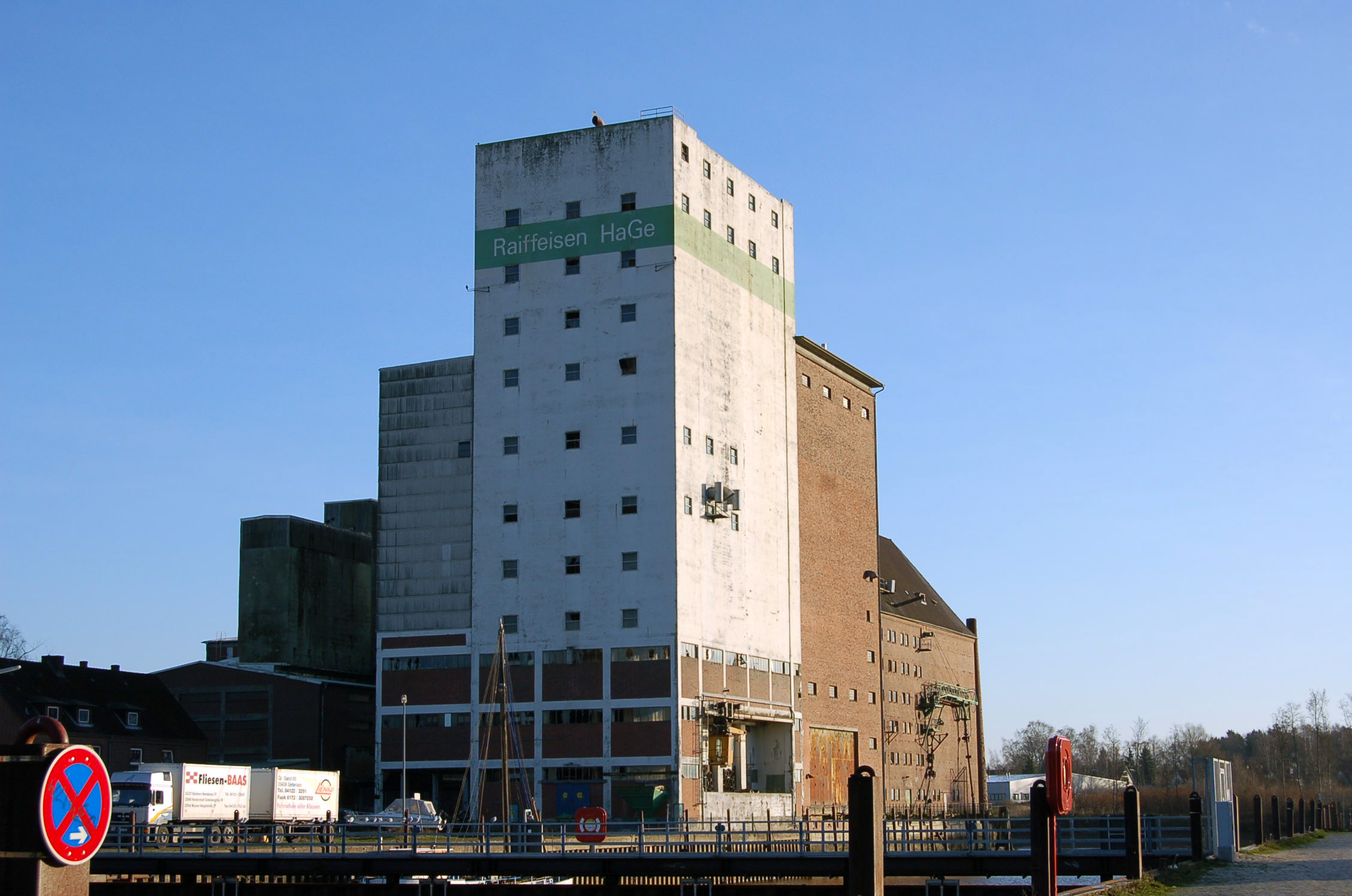 Former granary at the harbour.